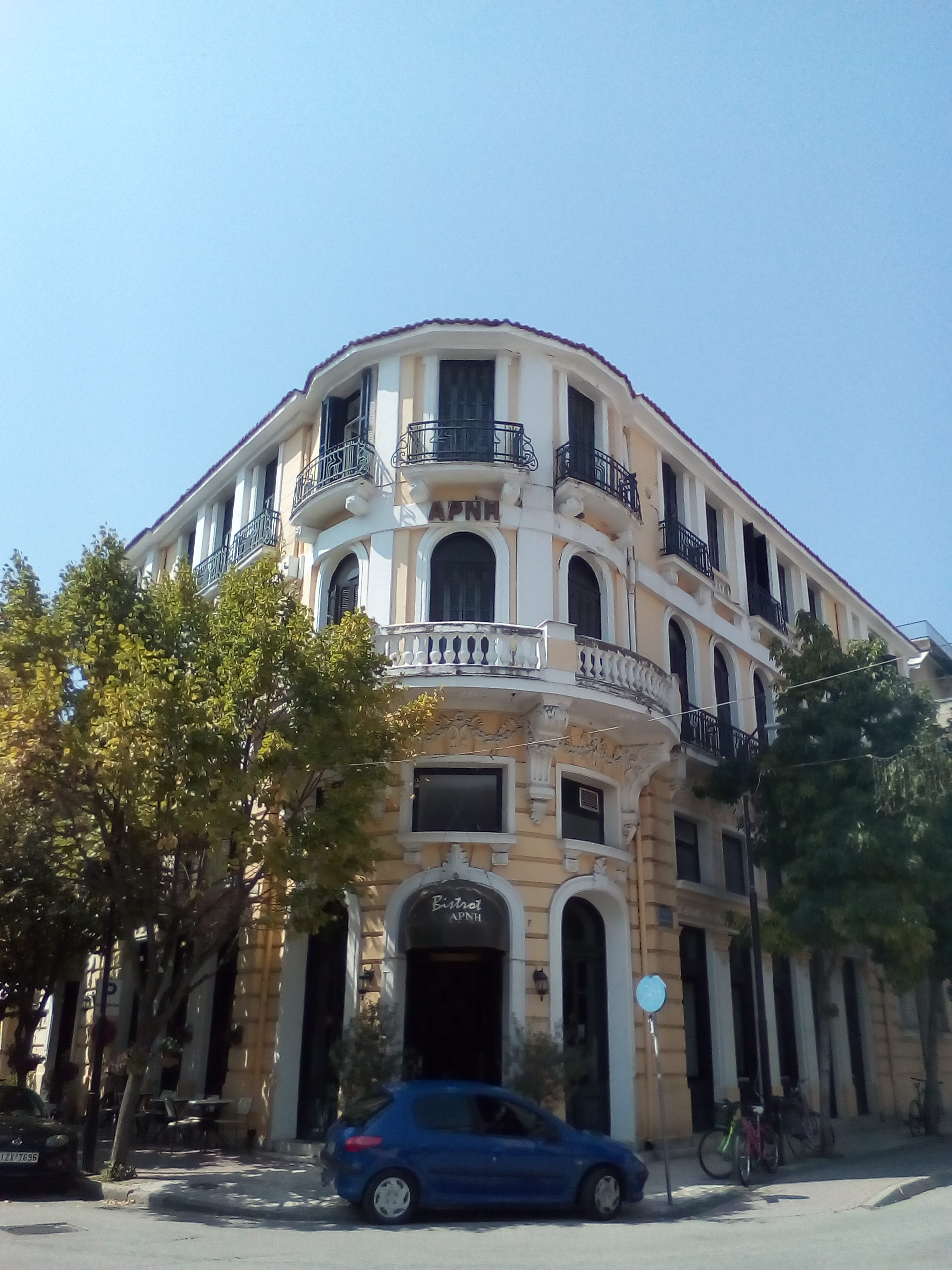 Arni Hotel in Karditsa«Ξενοδοχείο Άρνη, Καρδίτσα»